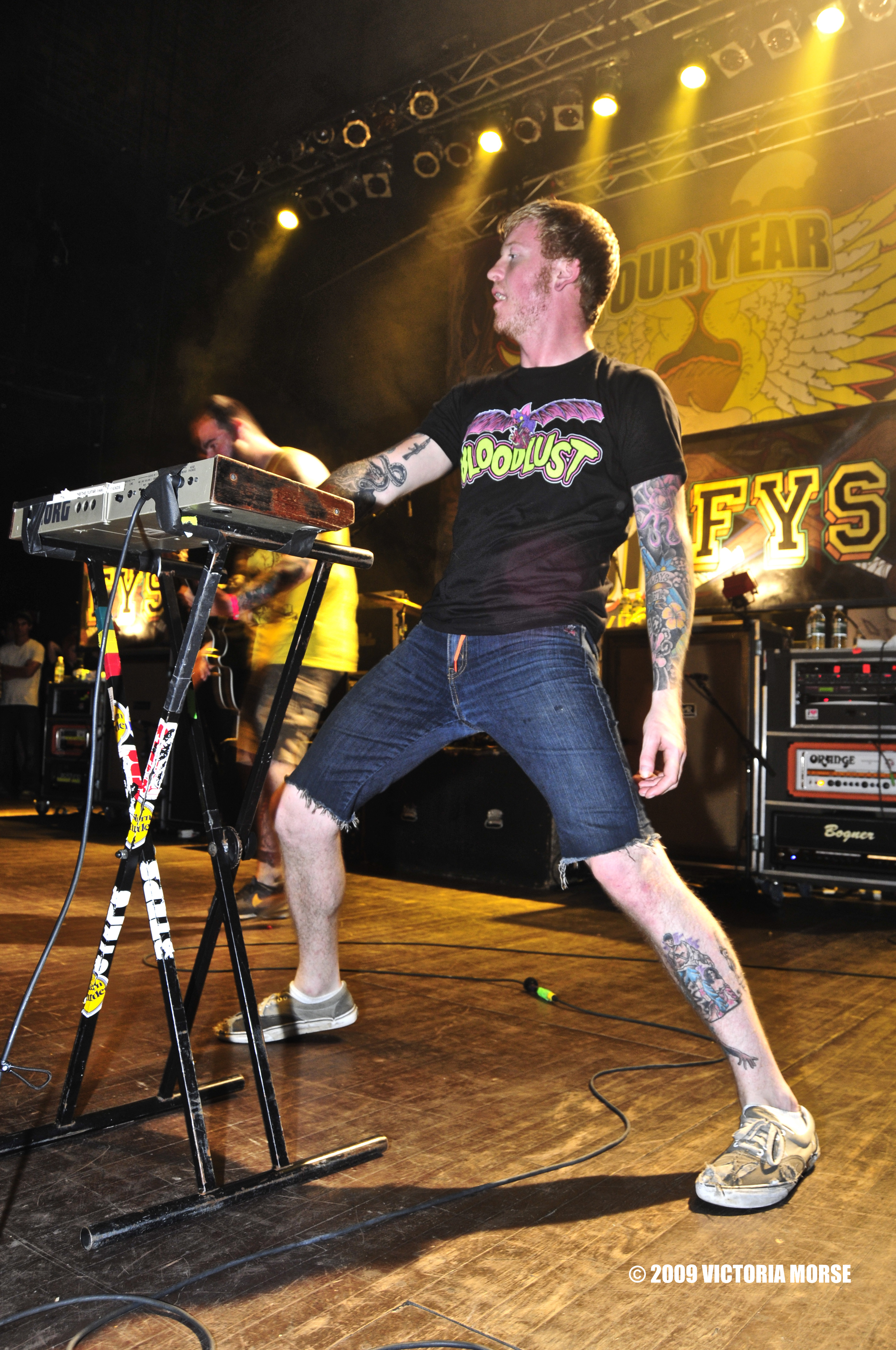 © 2009 Victoria Morse Photo taken July 25 @ The Palladium.